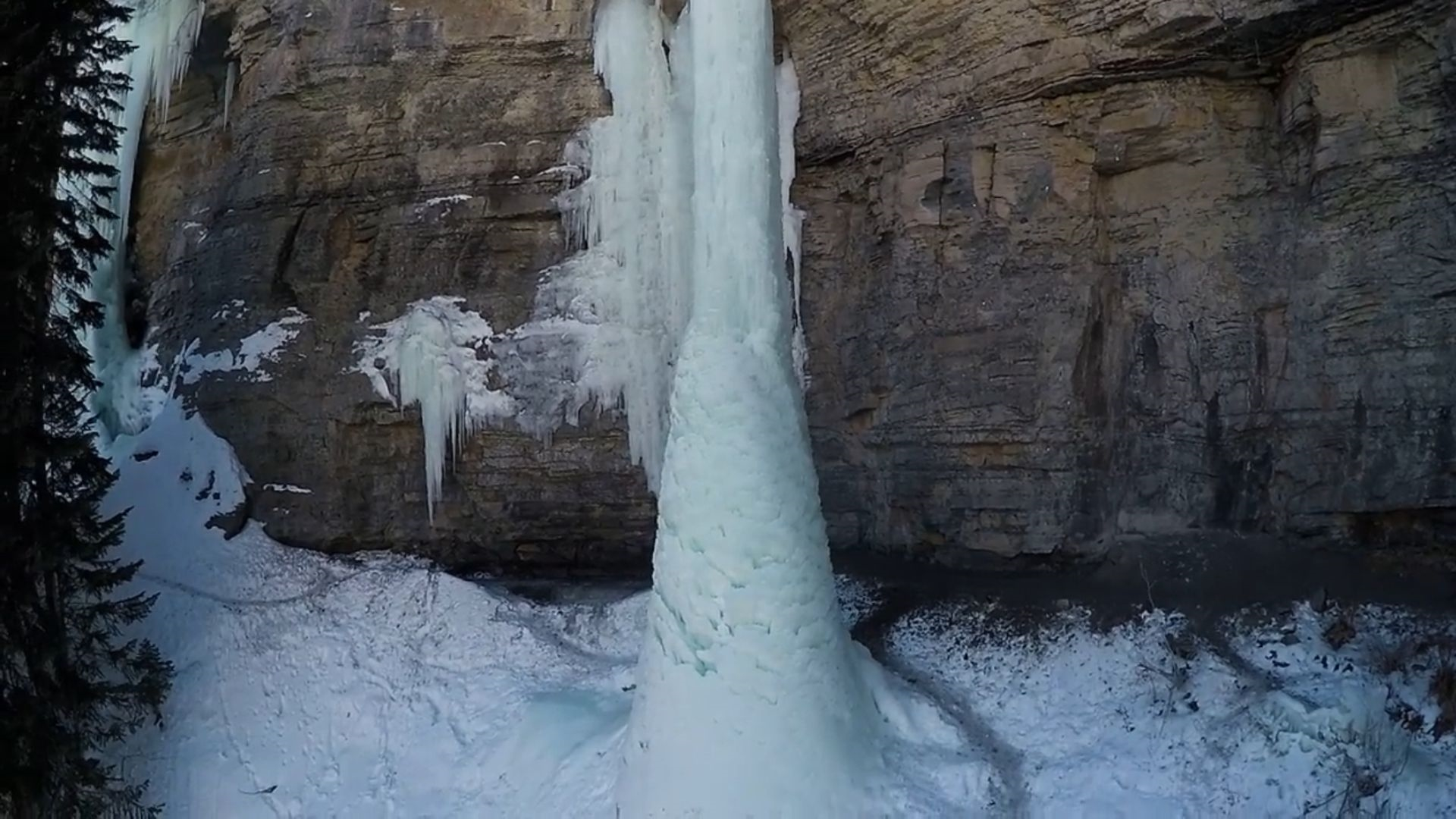 Screenshot from a video of a huge ice formation (icefall) called "The Fang". Filmed in East Vail, Colorado, USA.